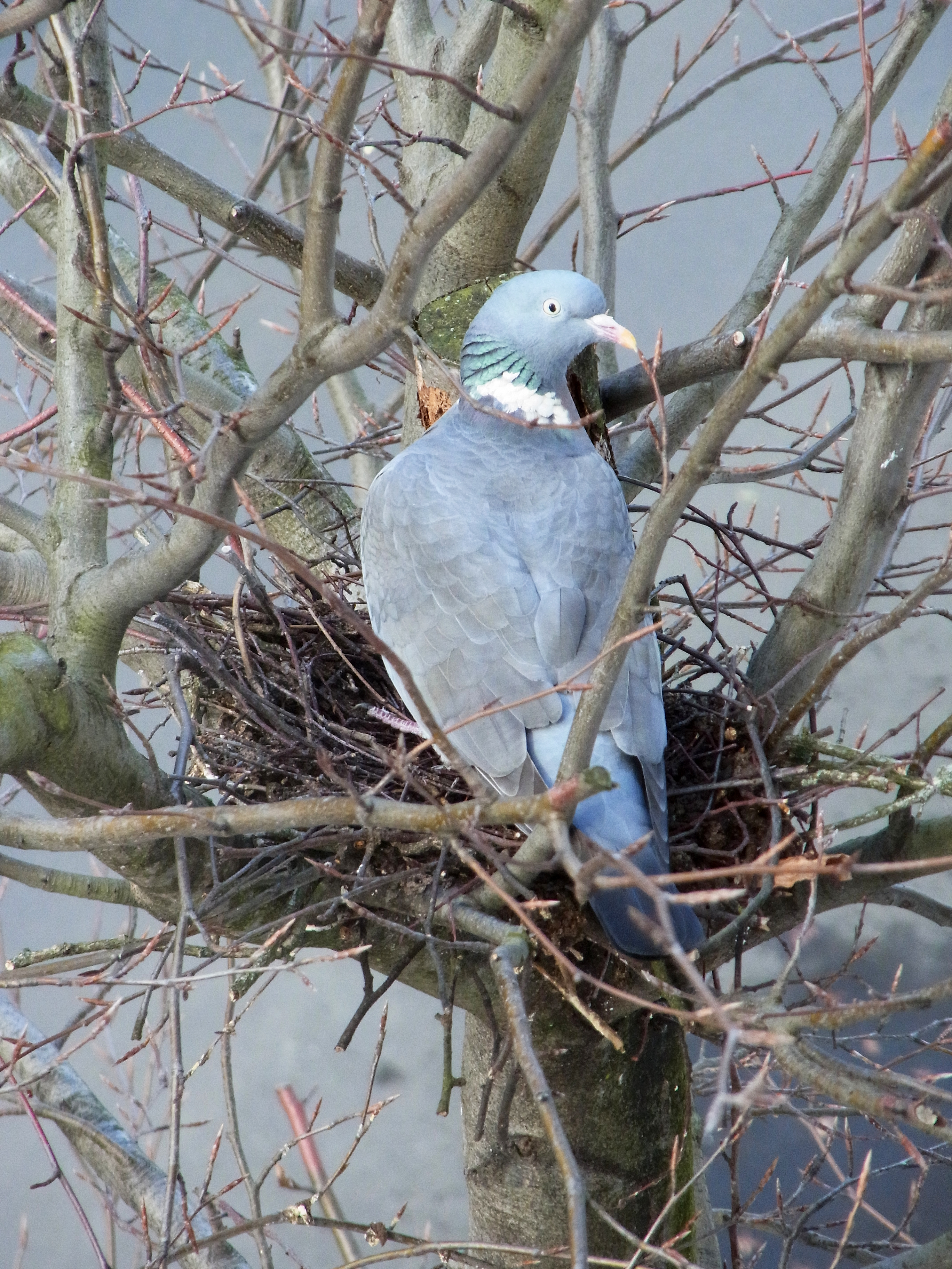 A Common Wood Pigeon (Columba palumbus) is revisiting an old nest.